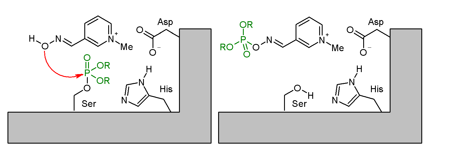 Pralidoxime reactivates the cholinesterase by removing the phosphoryl group that is bound to the ester group.